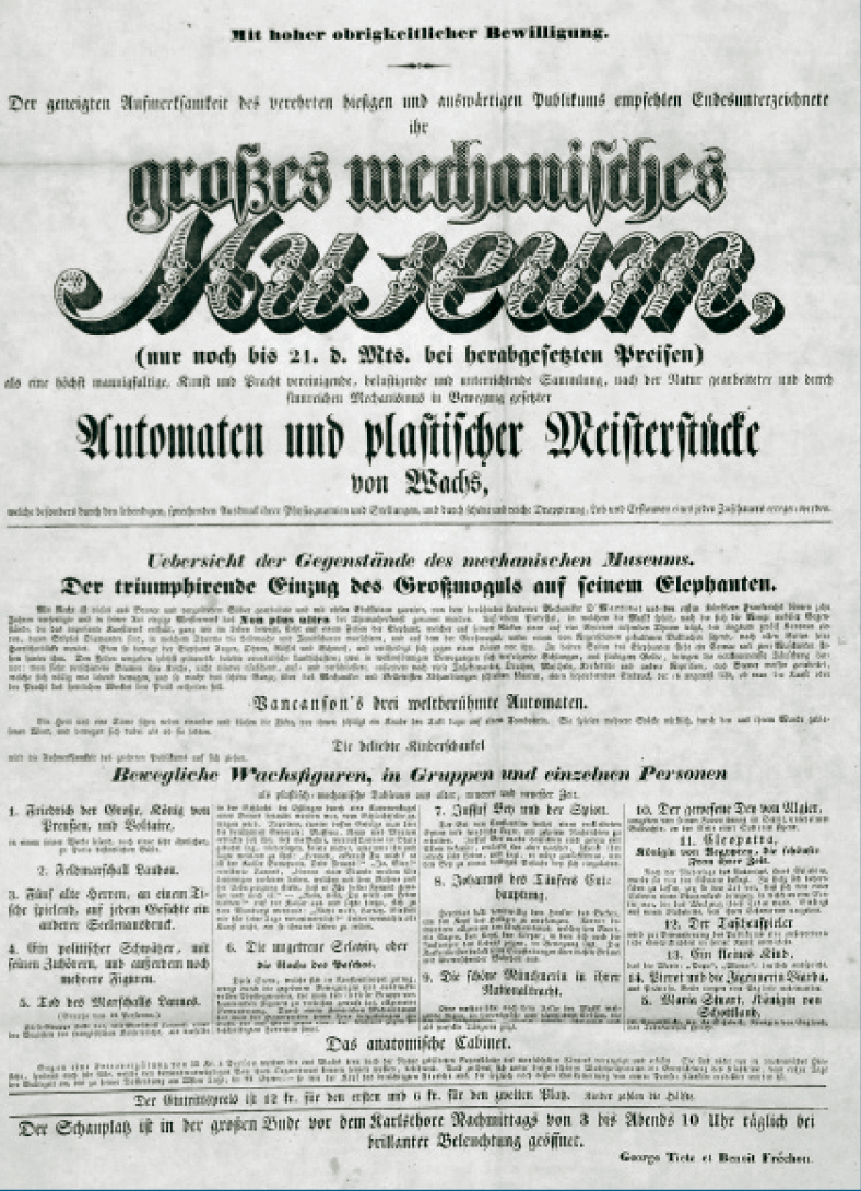 Advertising fwall bill for an early travelling automata and wax works museum.